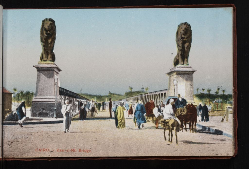 Lots of pedestrians on bridge Bridge flanked by lions on both sides. The lions are sculptures by French artist Henri Alfred Marie Jacquemart, 1873.